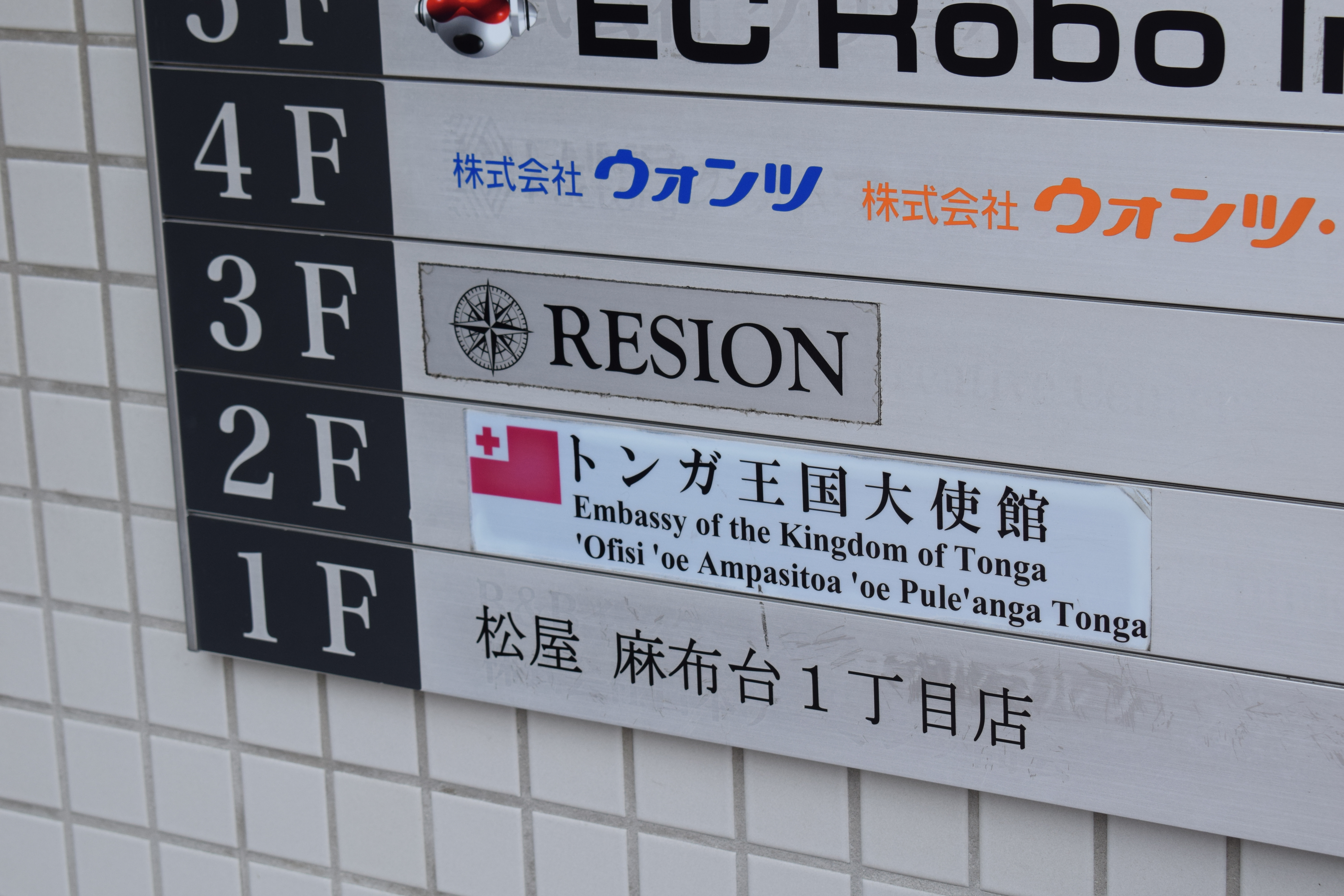 Plate of Iikura IT Building, which indicates the Embassy of Tonga in Tokyo, Japan